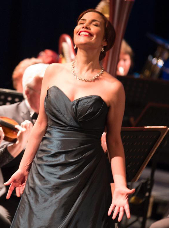 Swiss operatic soprano Rahel Ava Indermaur performing at the Severočeské divadlo in the Czech Republic in 2017